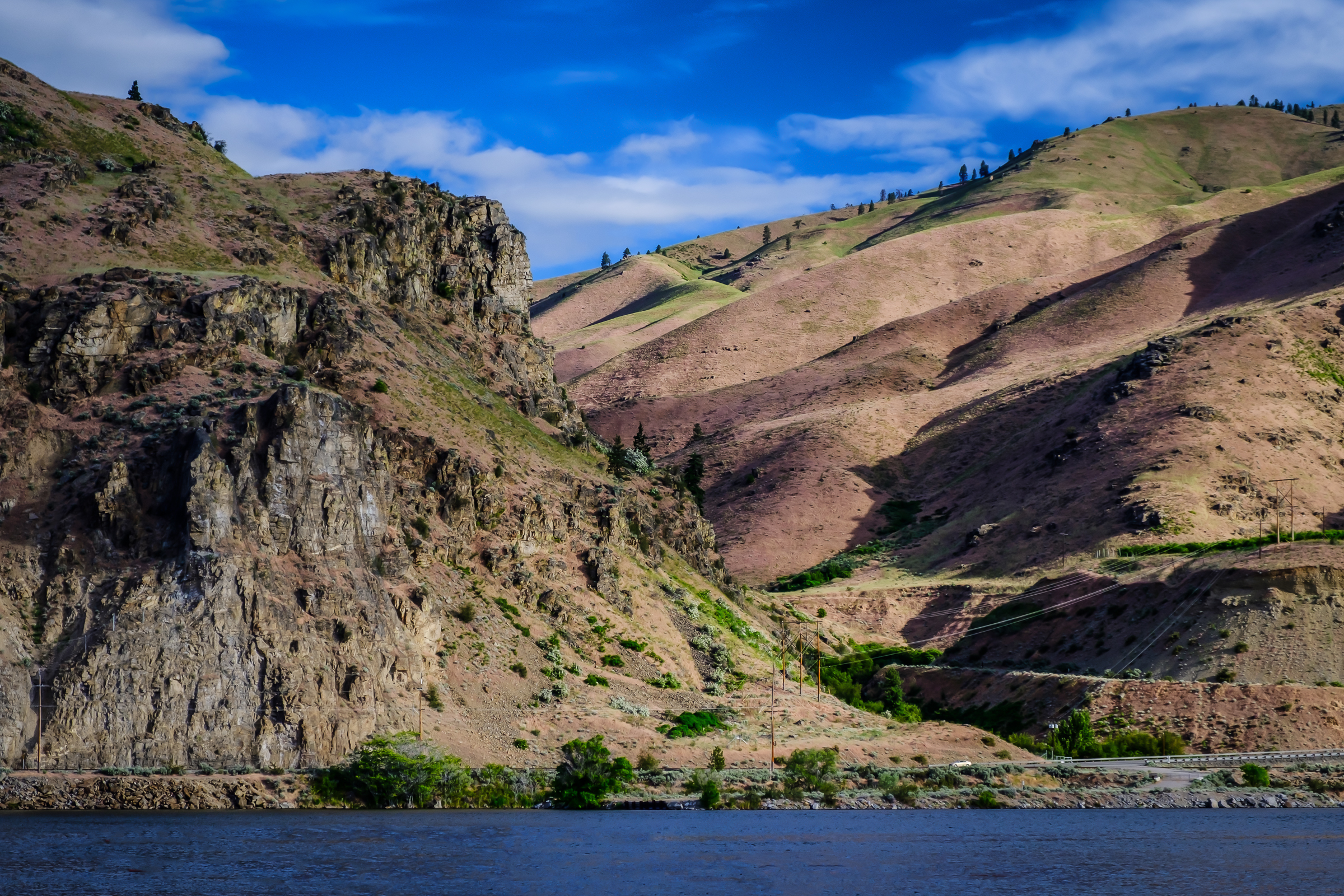 Lincoln Rock, seen from Lincoln Rock State Park, across the Columbia River